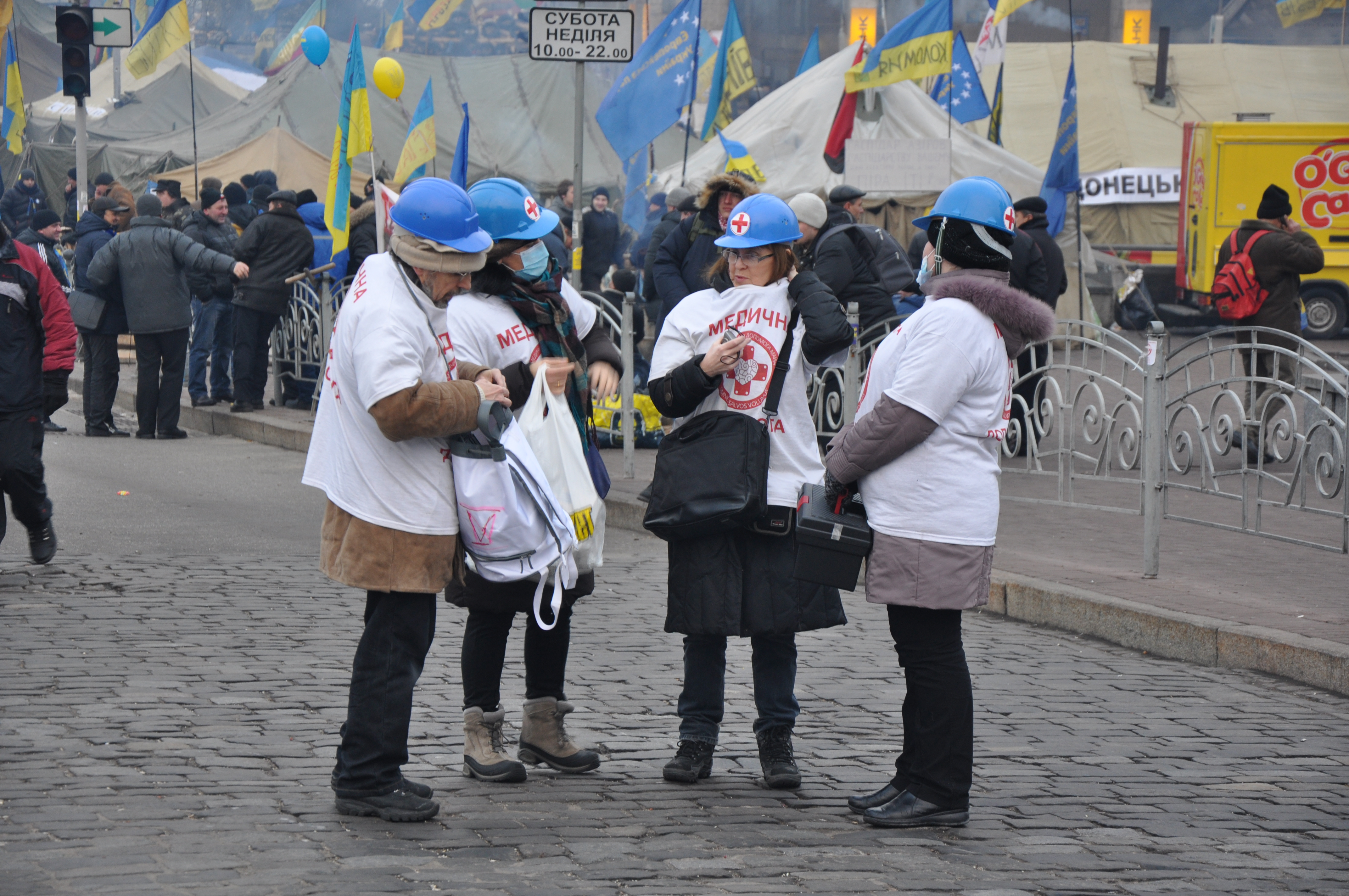 Euromaidan in Kyiv